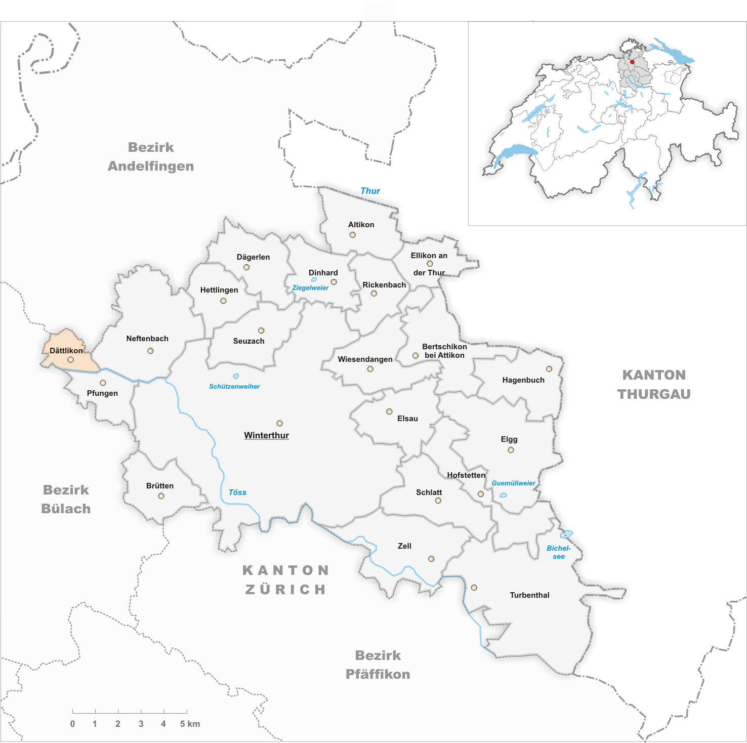 Municipality Dättlikon